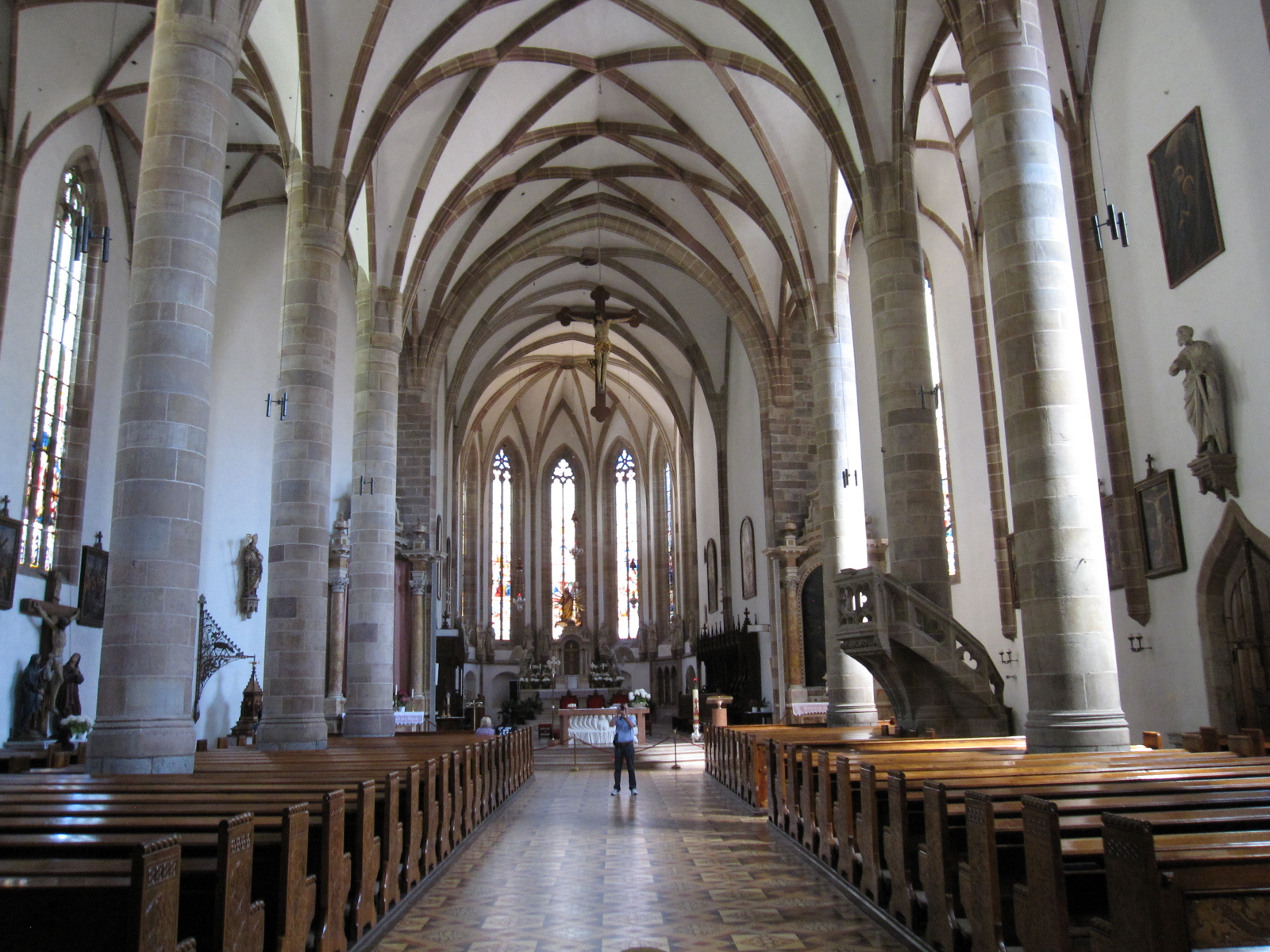 Main nave of the church of St. Nikolaus in Meran, South Tyrol.